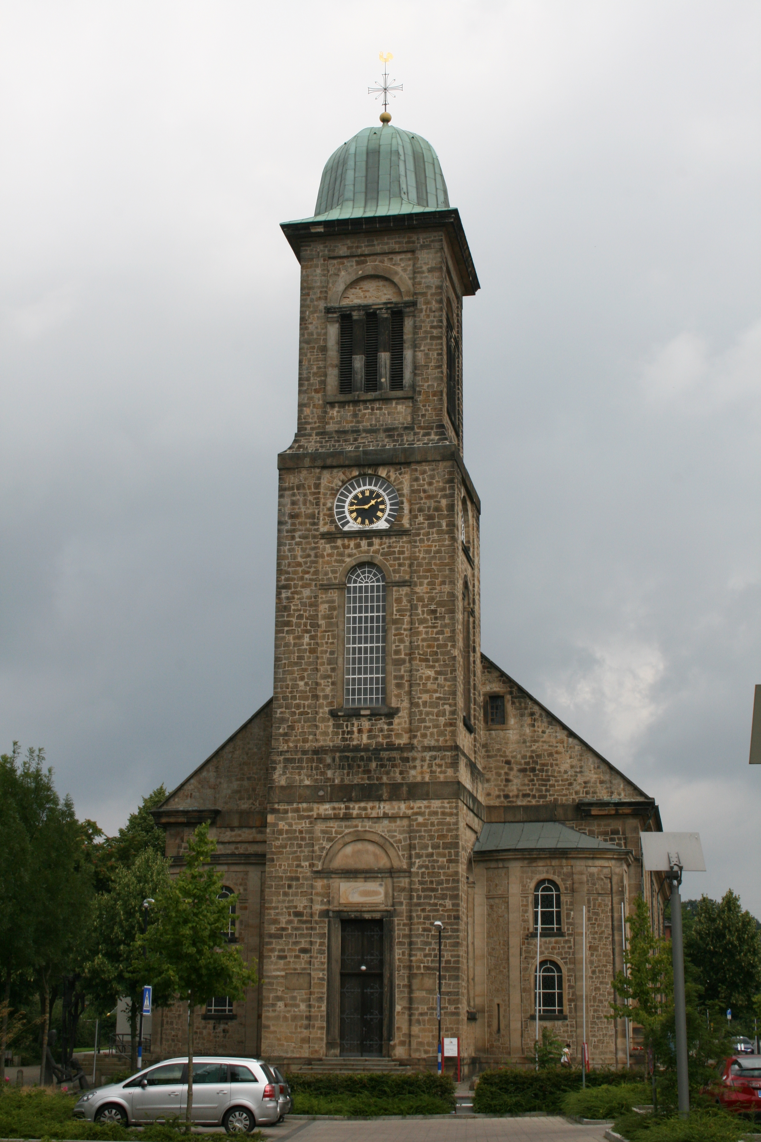 The Roman Catholic church St. Mauritius in Ibbenbüren